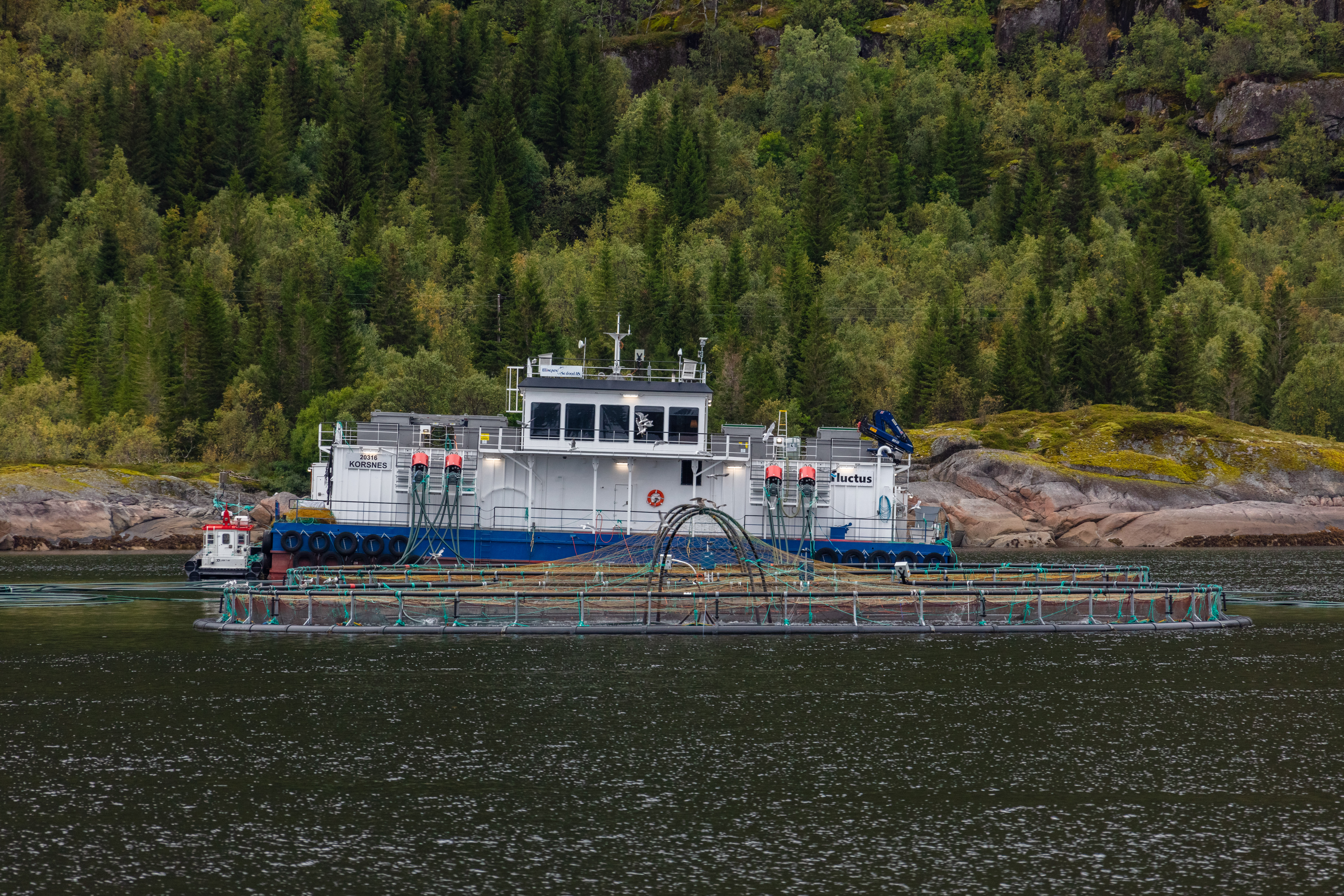 Salmon floating cages, Svolvær, Lofoten, Norway